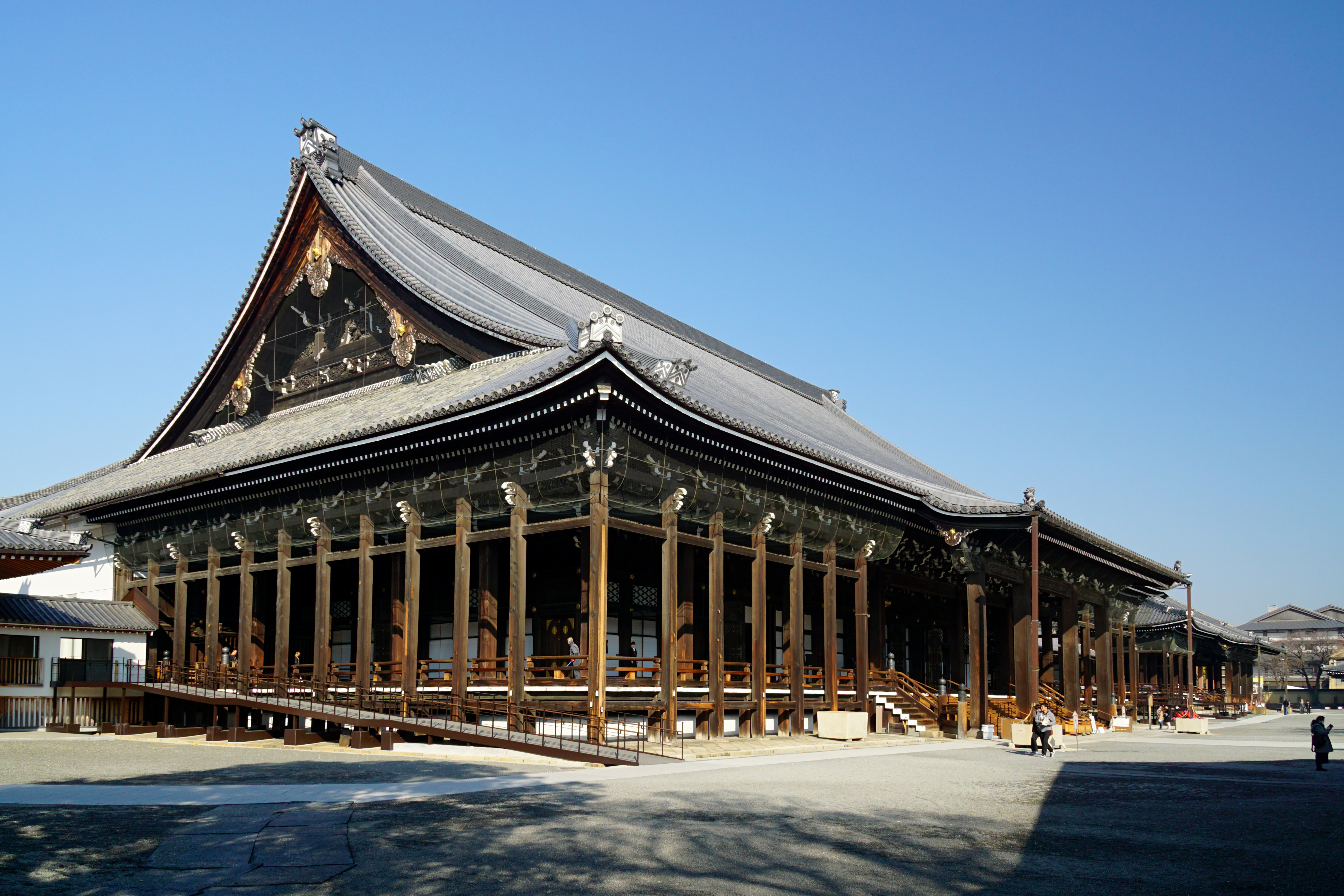 Nishi Honganji in Kyoto, Kyoto prefecture, Japan